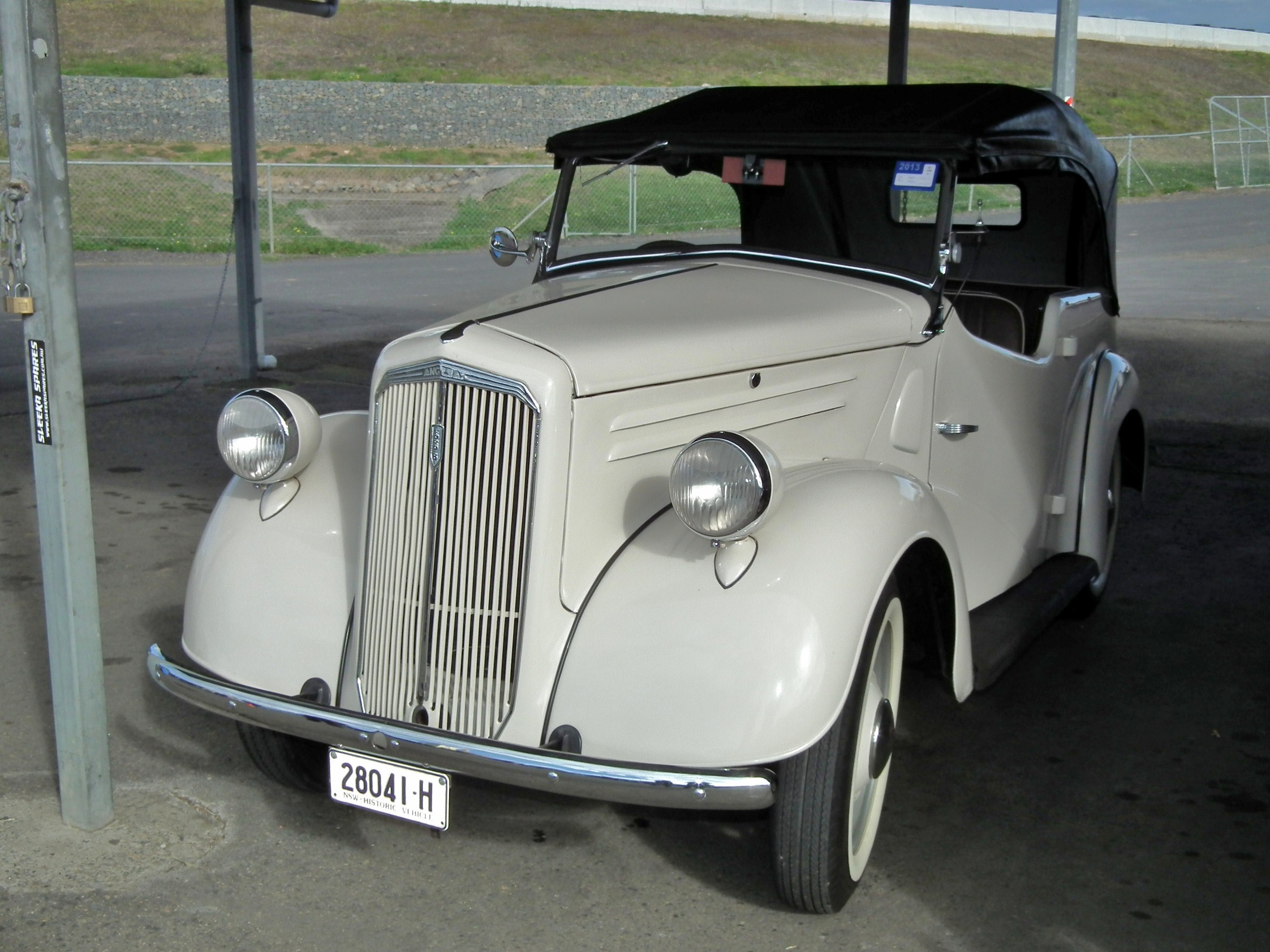 1947 Ford Anglia E04A tourer. Taken at the 2012 New South Wales All Ford Day, held at Sydney Motorsport Park (formerly Eastern Creek Raceway).